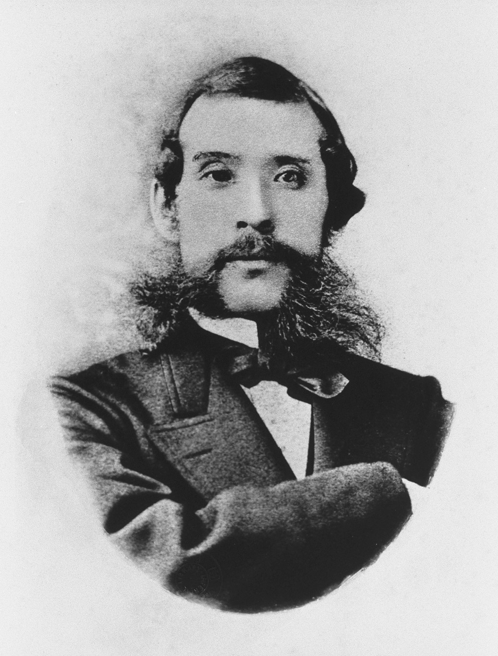 Portrait of Okubo Toshimichi (大久保利通, 1830 – 1878)